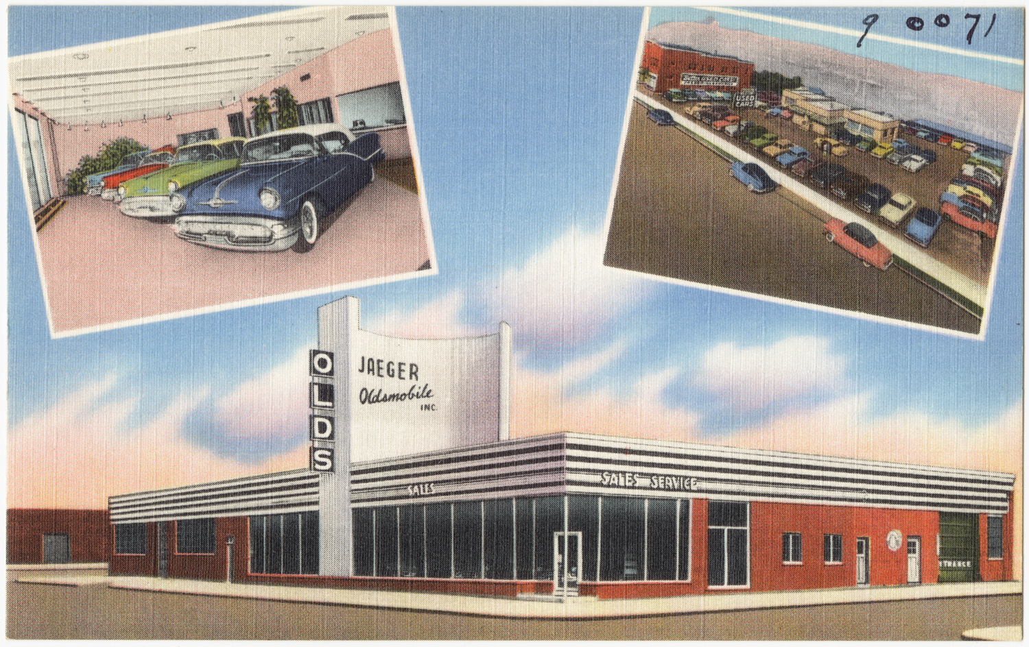 File name: 06_10_022779 Title: Jaeger Oldsmobile Inc. Created/Published: L. L. Cook Co., Post Cards, Milwaukee Date issued: 1930 - 1945 (approximate) Physical description: 1 print (postcard) : linen texture, color ; 3 1/2 x 5 1/2 in. Genre: Postcards Subject: Commercial facilities Notes: Title from item. Collection: The Tichnor Brothers Collection Location: Boston Public Library, Print Department Rights: No known restrictions